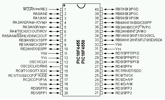 Pinout PIC18F4550